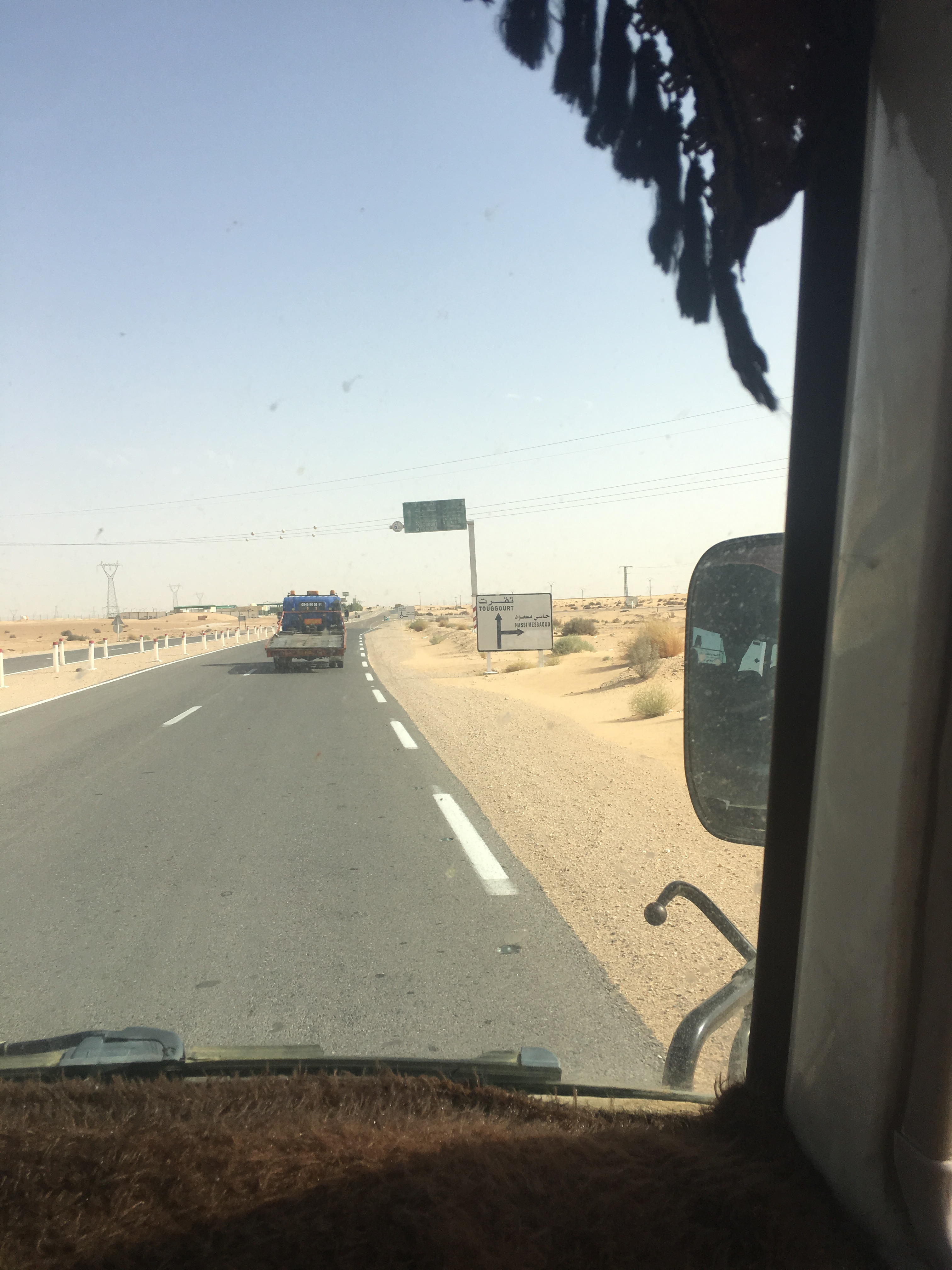 The photo was taken by myself as a passenger on a bus from Ouargla to Touggourt in the Algerian Sahara during the big heat of desert summer, the photo shows the hardness and the road’s bad quality This is an image with the theme "Africa on the Move or Transport" from: Algeria